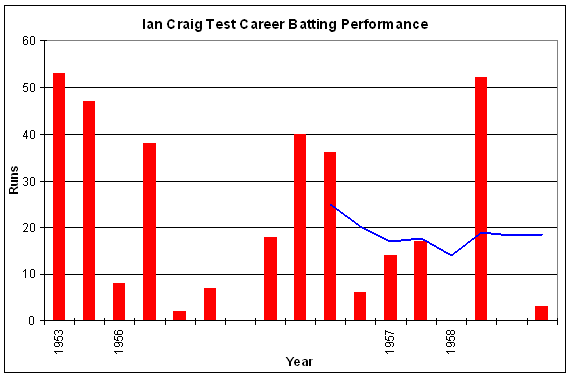 Ian Craig's Test career batting graph. The red bars indicate the runs that he scored in an innings, with the blue line indicating the batting average in his last 10 innings. This graph was generated with Microsoft Excel 2002, using data from Cricinfo [1] and HowStat [2]